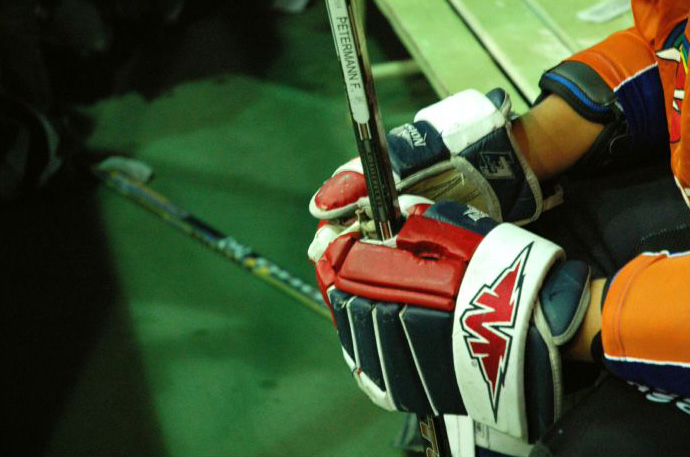 A hockey player's gloved hands holding his stick.